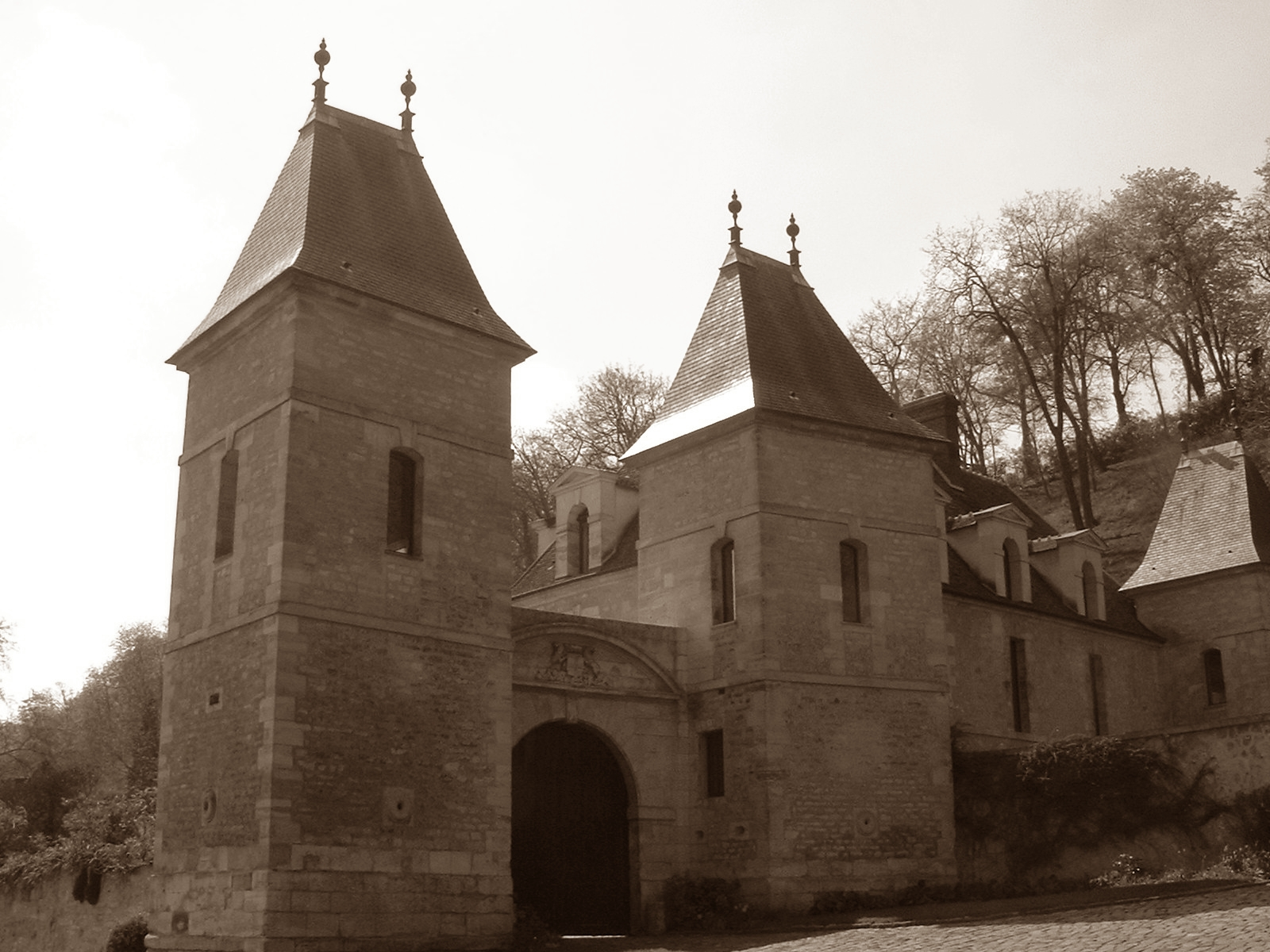 Château de Médan. The Château de Médan, in Les Yvelines, built during the XVth century was used as the mansion of the evil Boris Williams in the French series Belphégor, Claude Barma, 1965.